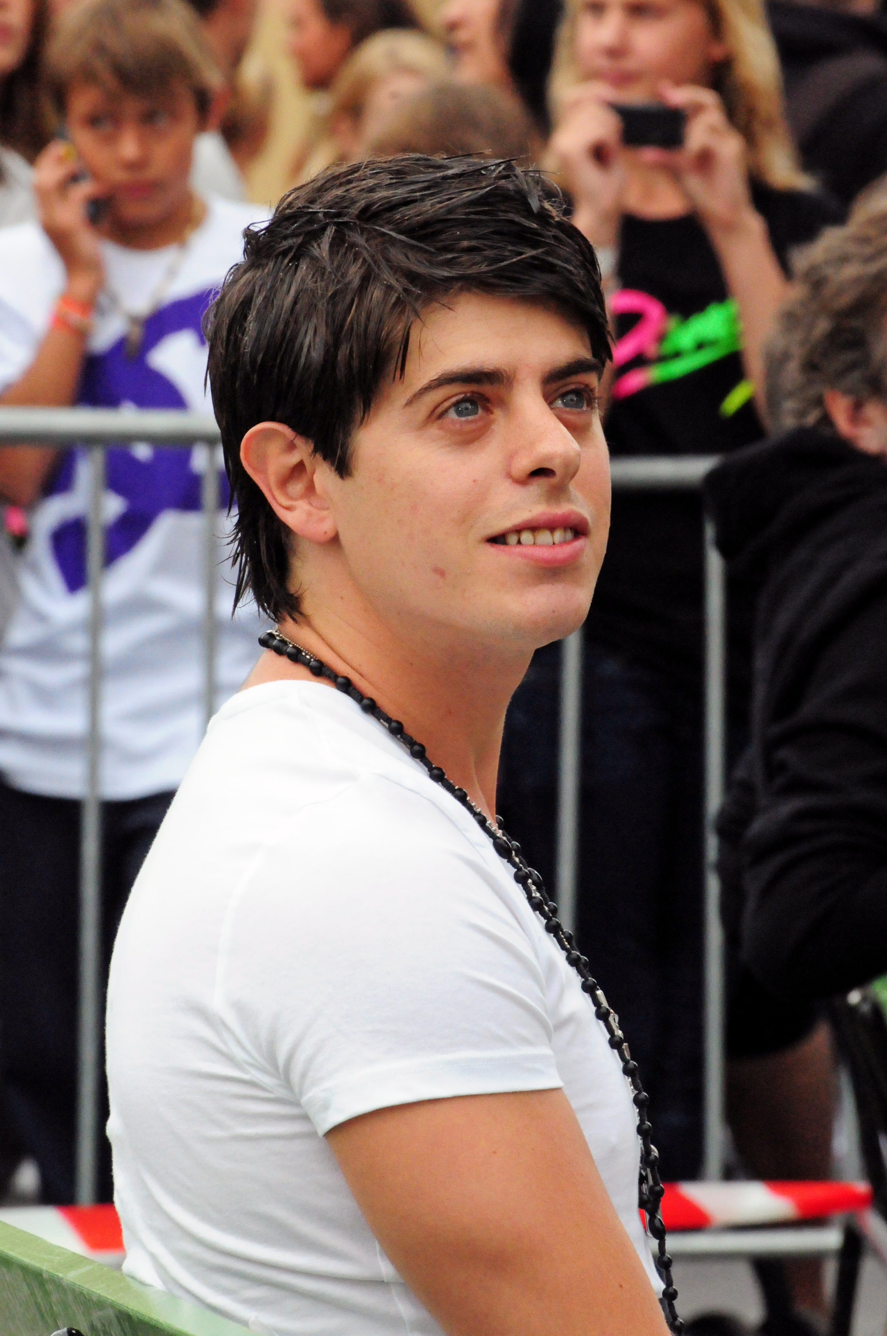 Kevin Borg at Sommarkrysset, in Stockholm at Gröna Lund 2009